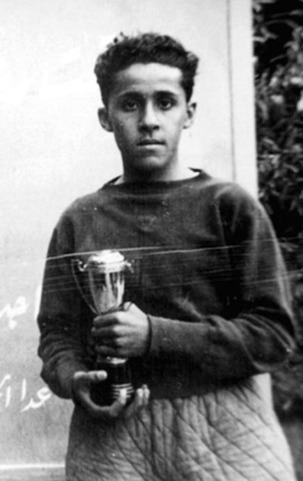 Abdulrahman bin Saud When he was a child in 1958.